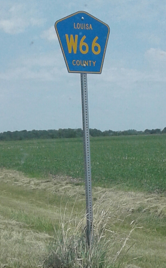 Reassurance marker for CR-W66 in Louisa County, Iowa